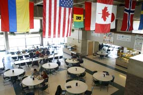 Picture of JSC Library and Learning Center (LLC) April 2002. Photography by Germain Kincaid, used gives permission for release to public domain reserving no rights.